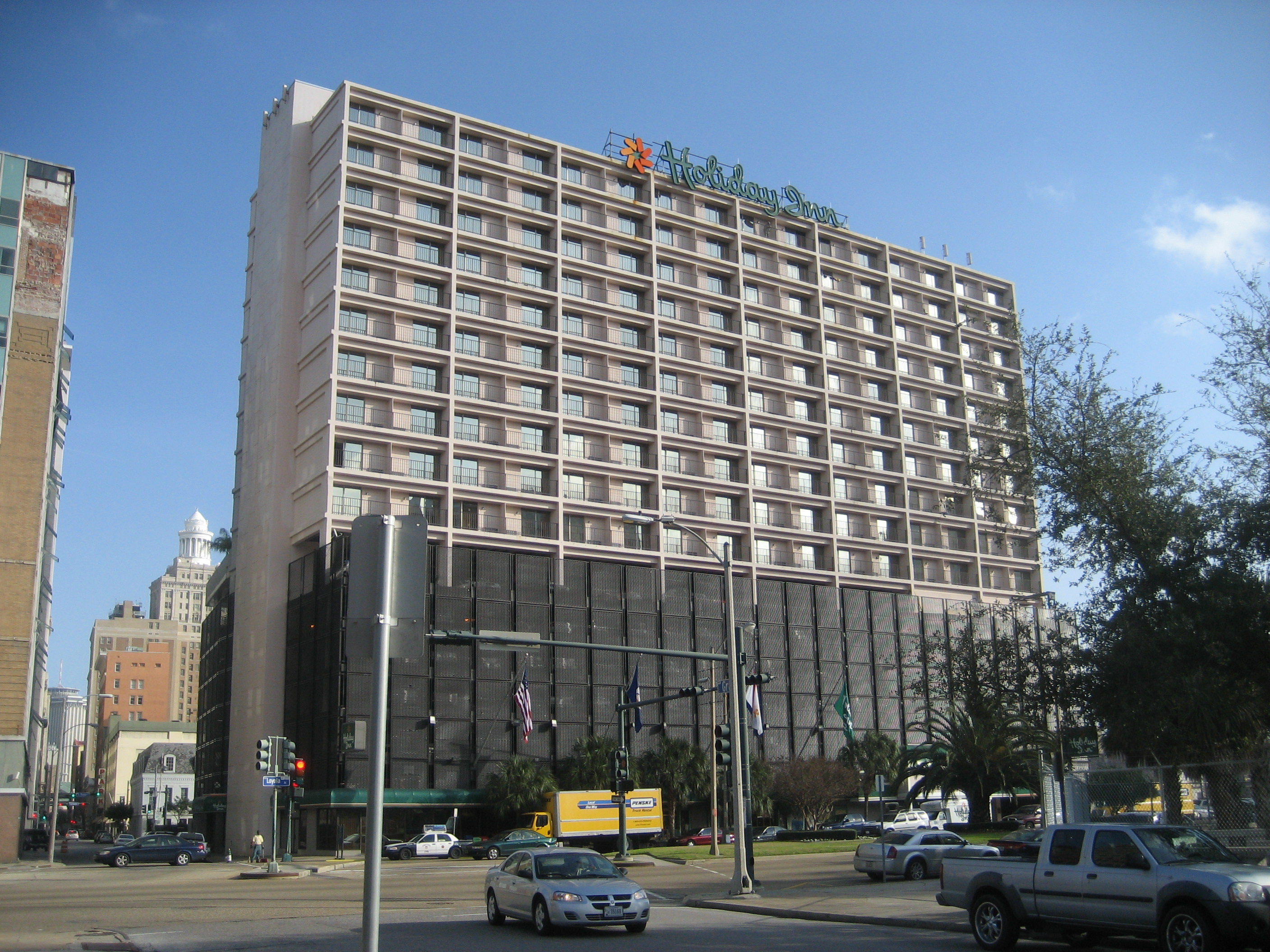 New Orleans: The Holiday Inn hotel building on Loyola Avenue. Building was formerly the Howard Johnson's Hotel; in January 1973 the site of a notorios crime when Mark Essex went on a shooting spree with a rifle from this building.